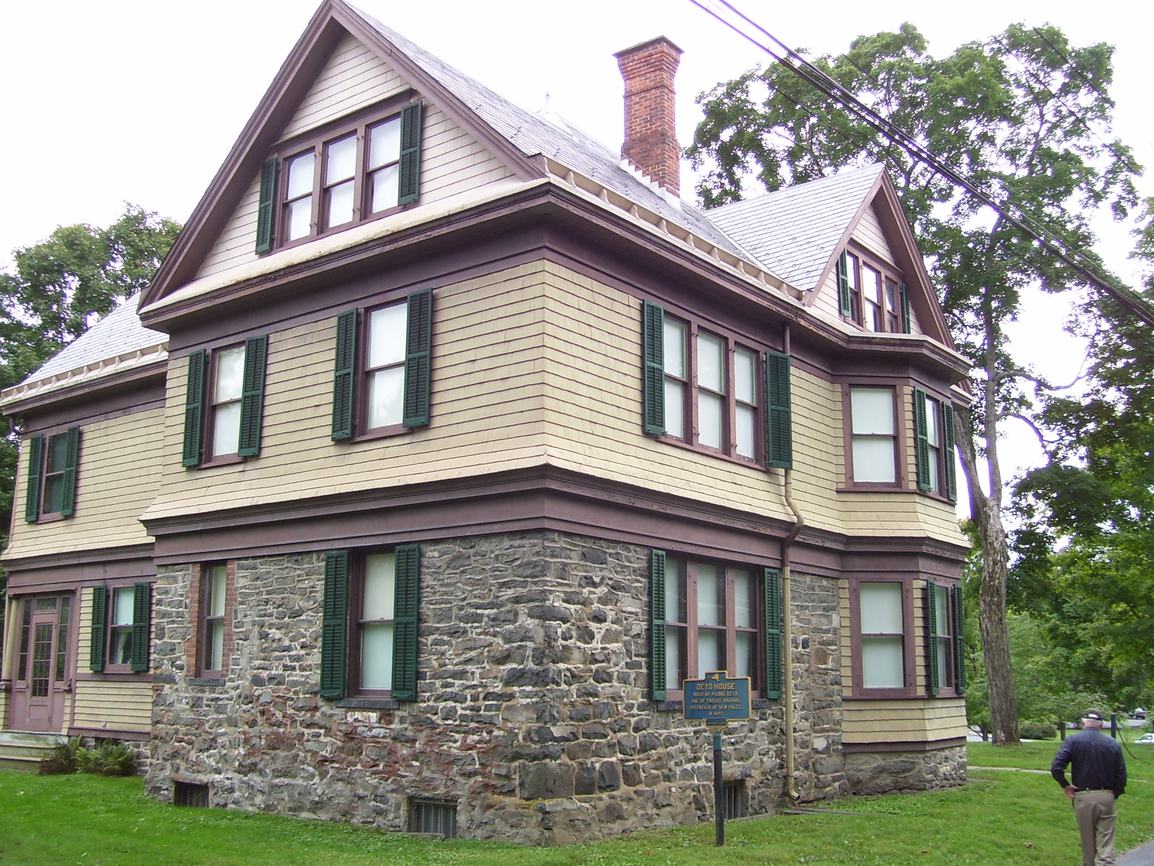 De Yo House on Huguenot Street in New Paltz, New York, USA.